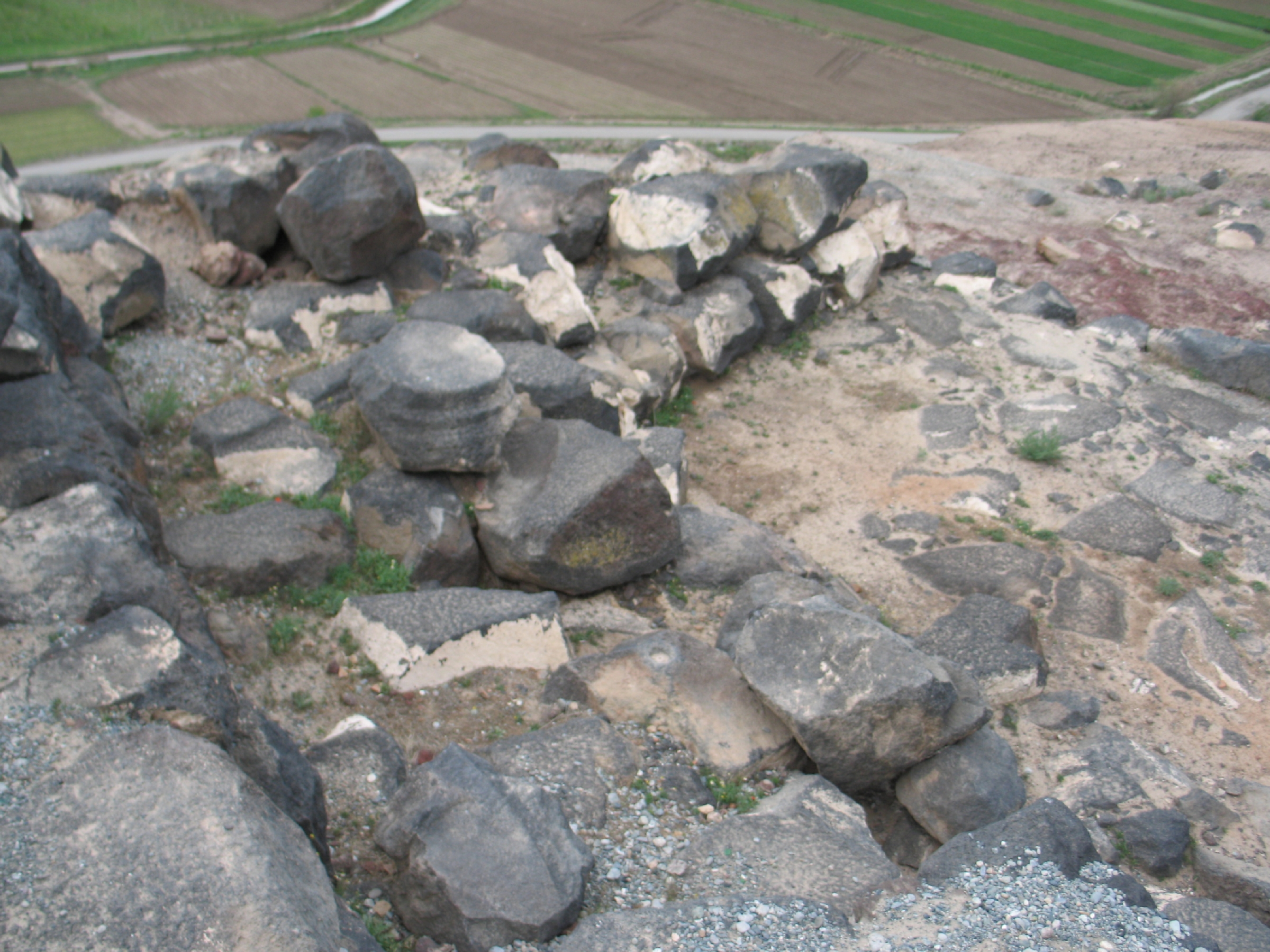 Արմավիրի հնավայր 71/1